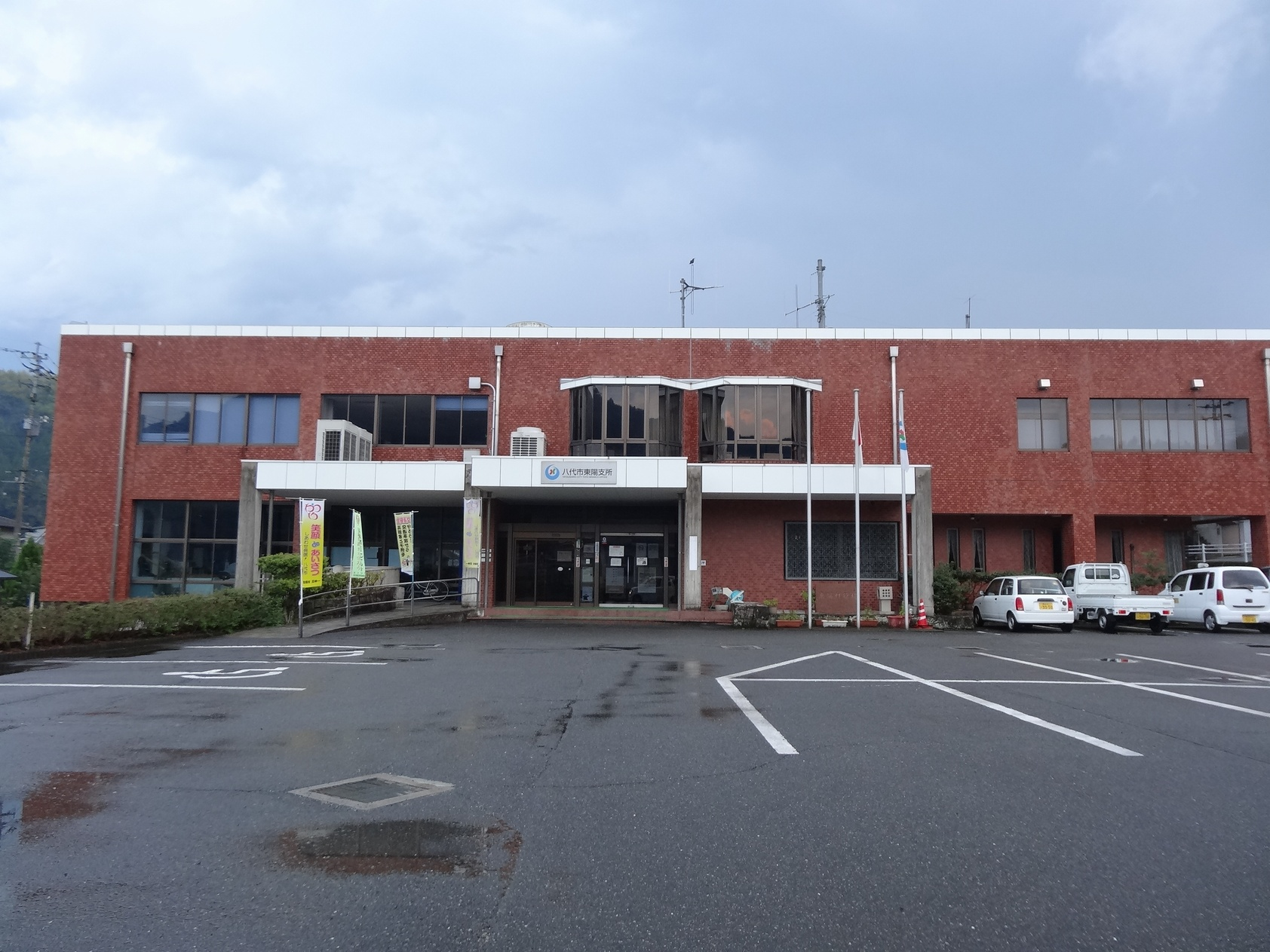 Yatsushiro City Toyo Branch Office (Former Toyo Village Office - Kumamoto Prefecture, Japan)